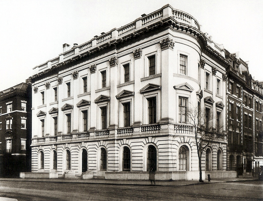 Exterior of Mrs. O.H.P. Belmont House, New York City.